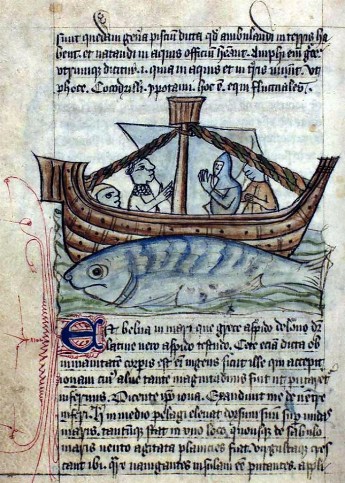 The Aspidochelone, from a 1633 ms in the Danish Royal Library